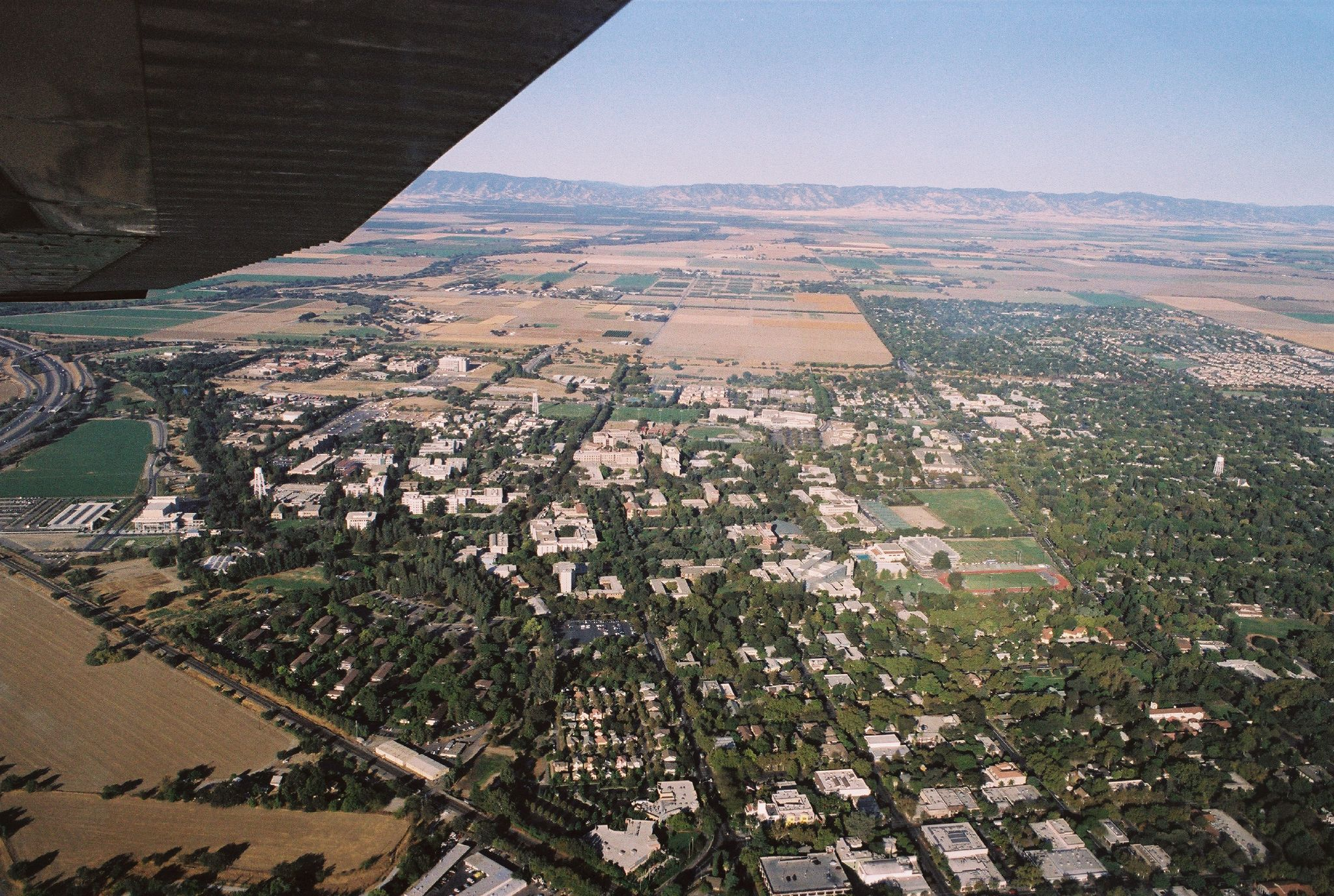 UC Davis from above looking west.